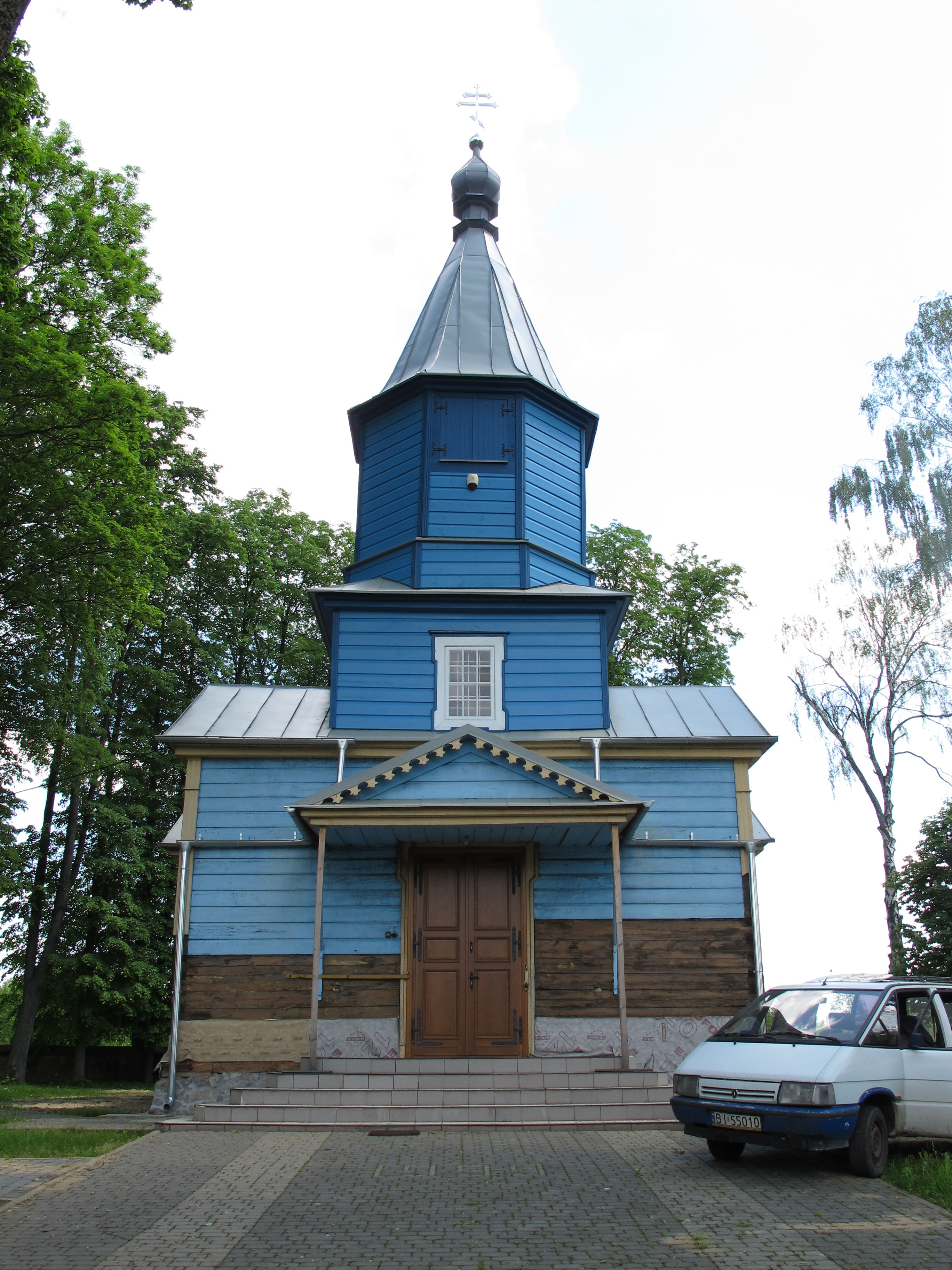 Wooden orthodox church of the Feast of the Cross near Kożany village, gmina Juchnowiec Kościelny, podlaskie, Poland